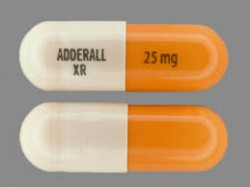 Adderall is a common prescribed simulant.